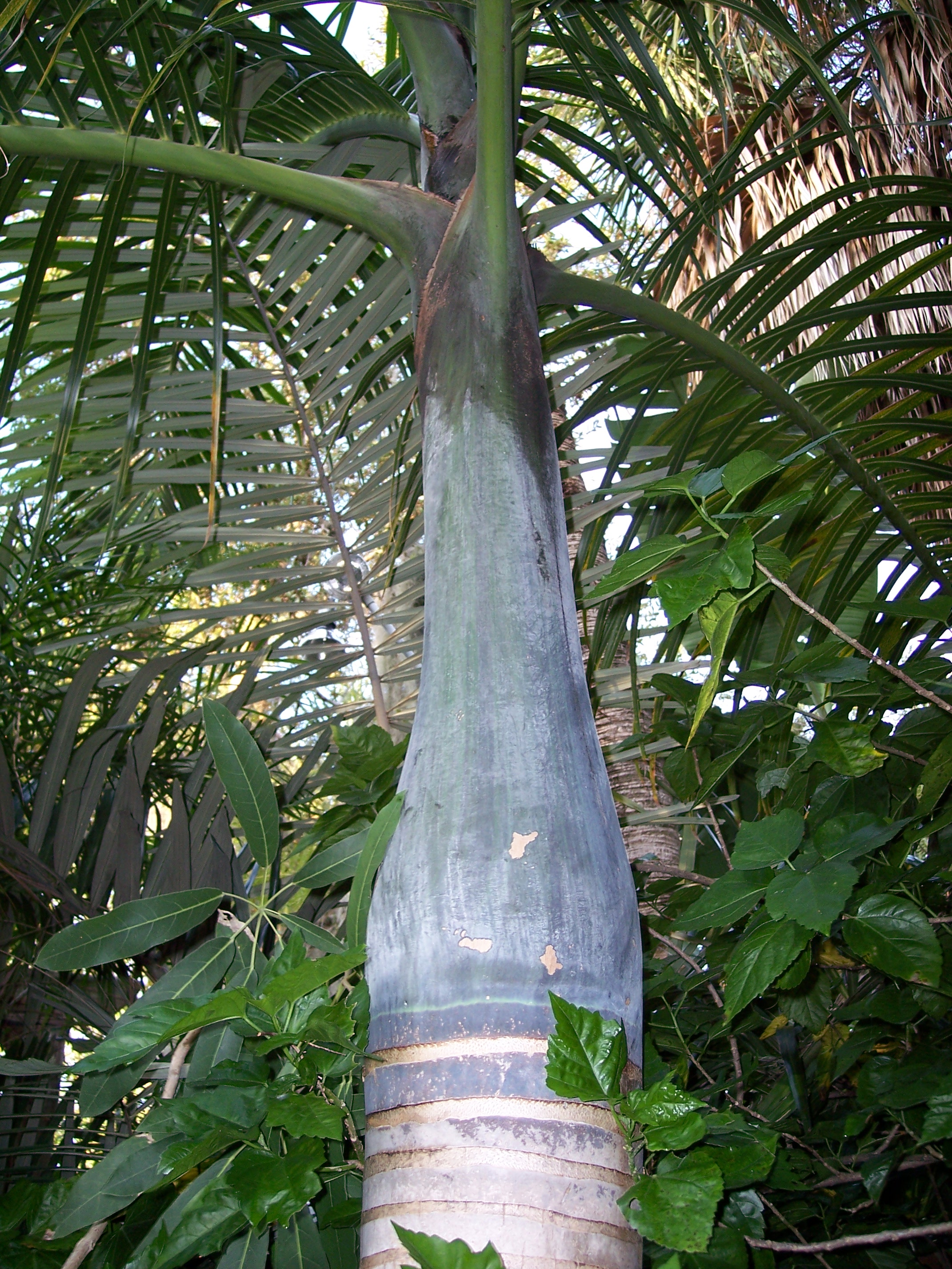 Trunk and crownshaft